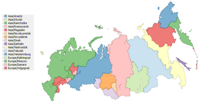 Time zones of Russia as in tz database version 2009r